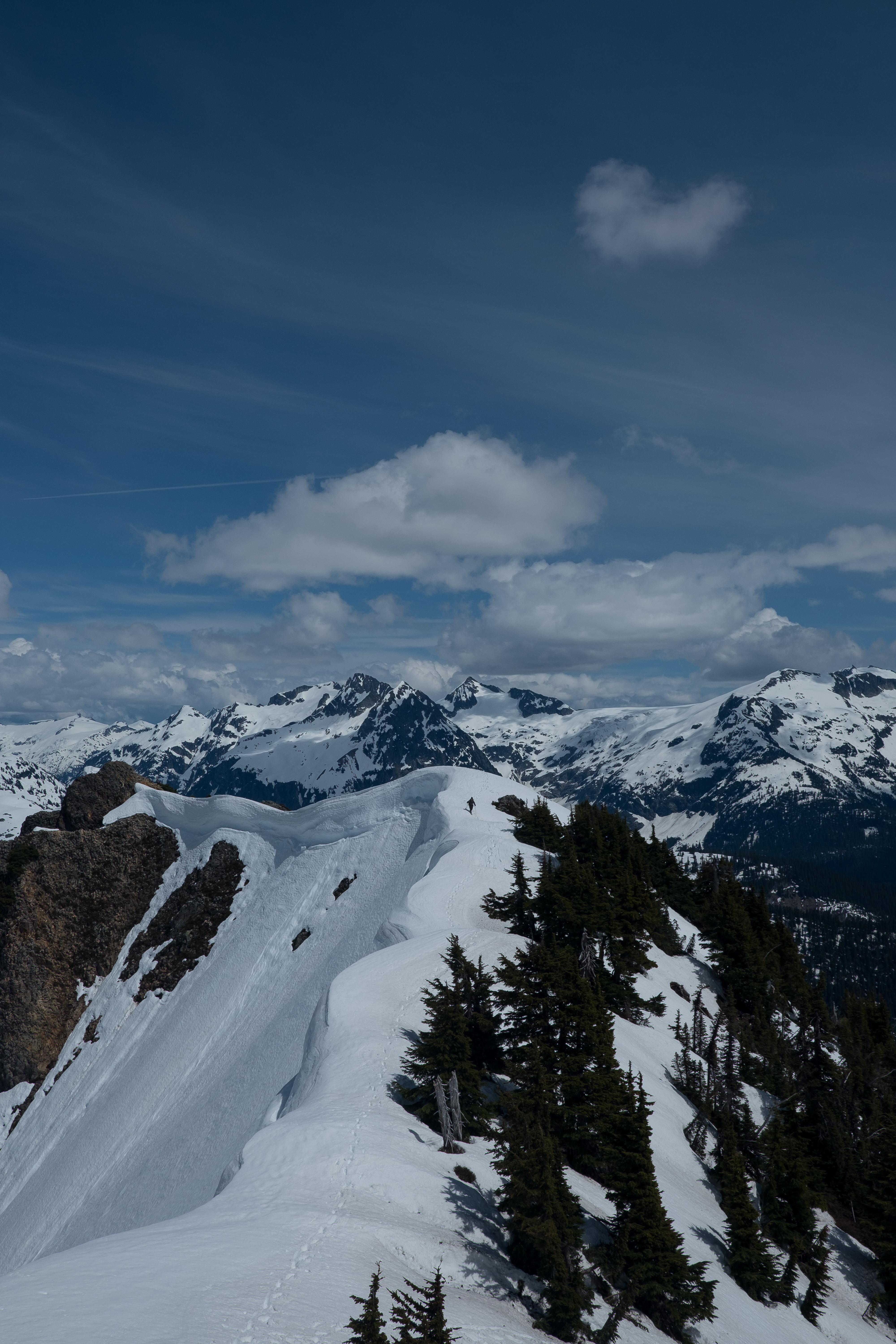 Image of the snowy slopes of gargole mountain